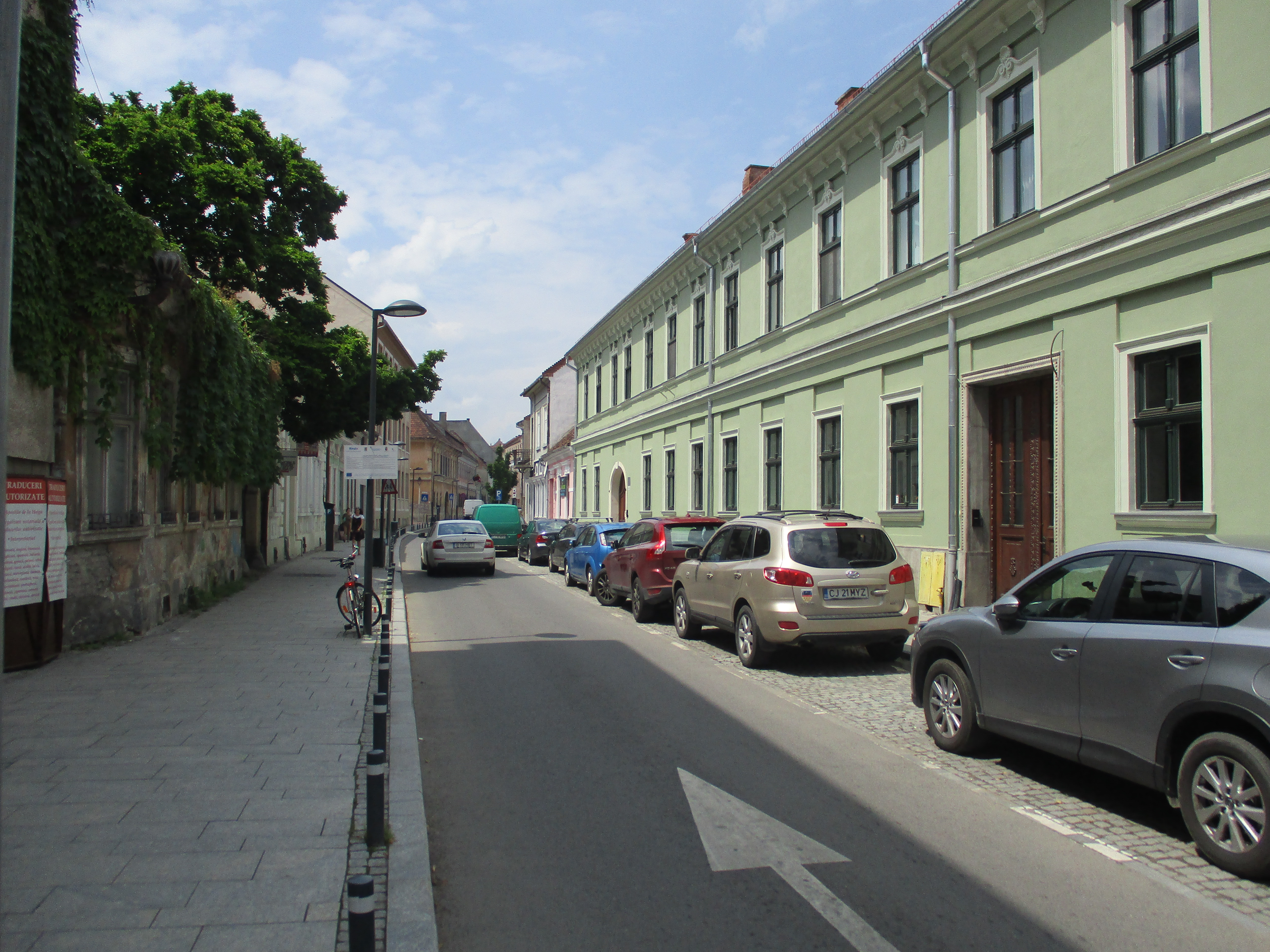 The Episcopal Office of the Transylvanian Reformed Church District in Cluj-Napoca (str. I.C. Brătianu nr. 51)